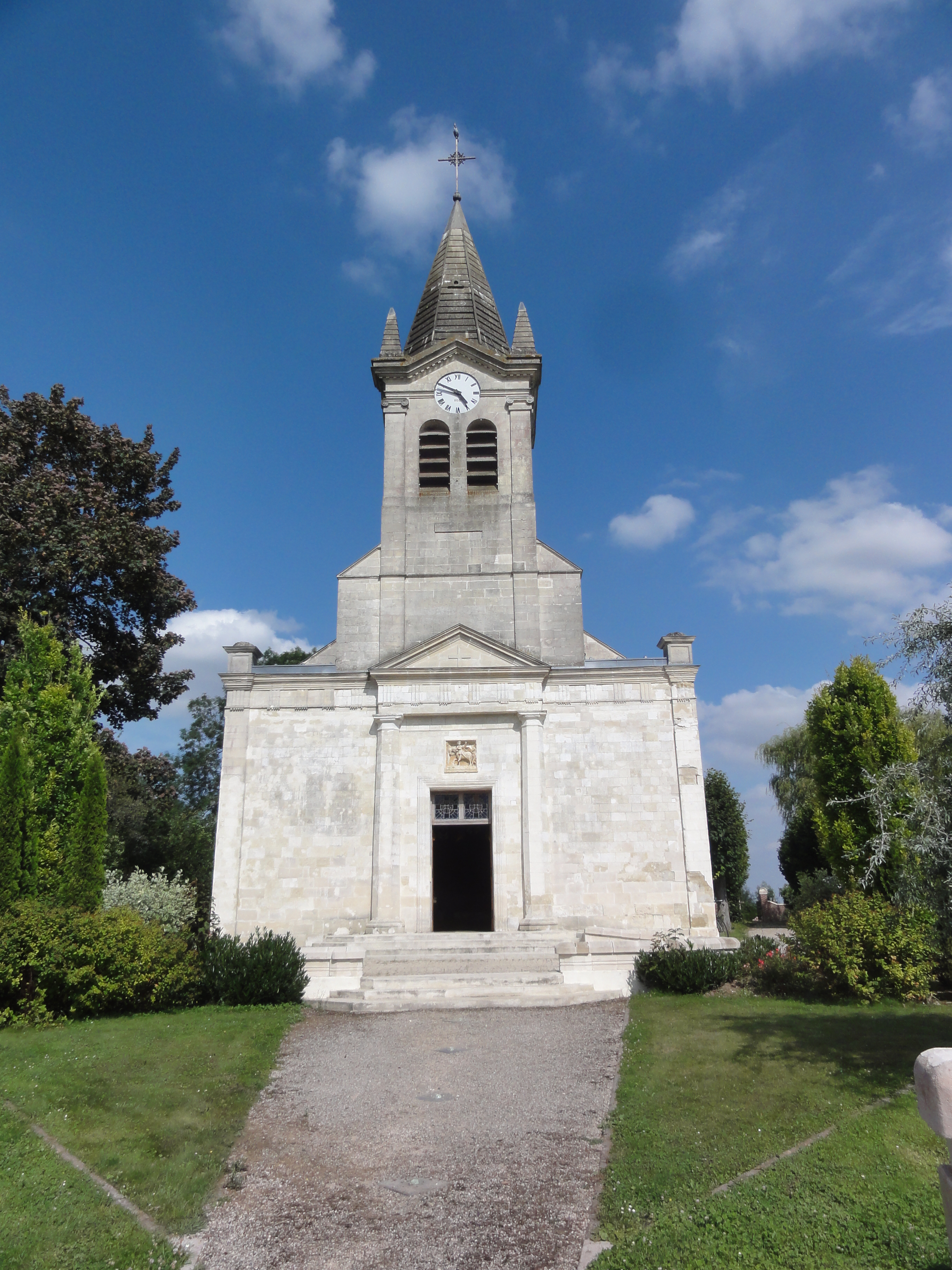 Joncourt (Aisne) église extérieur